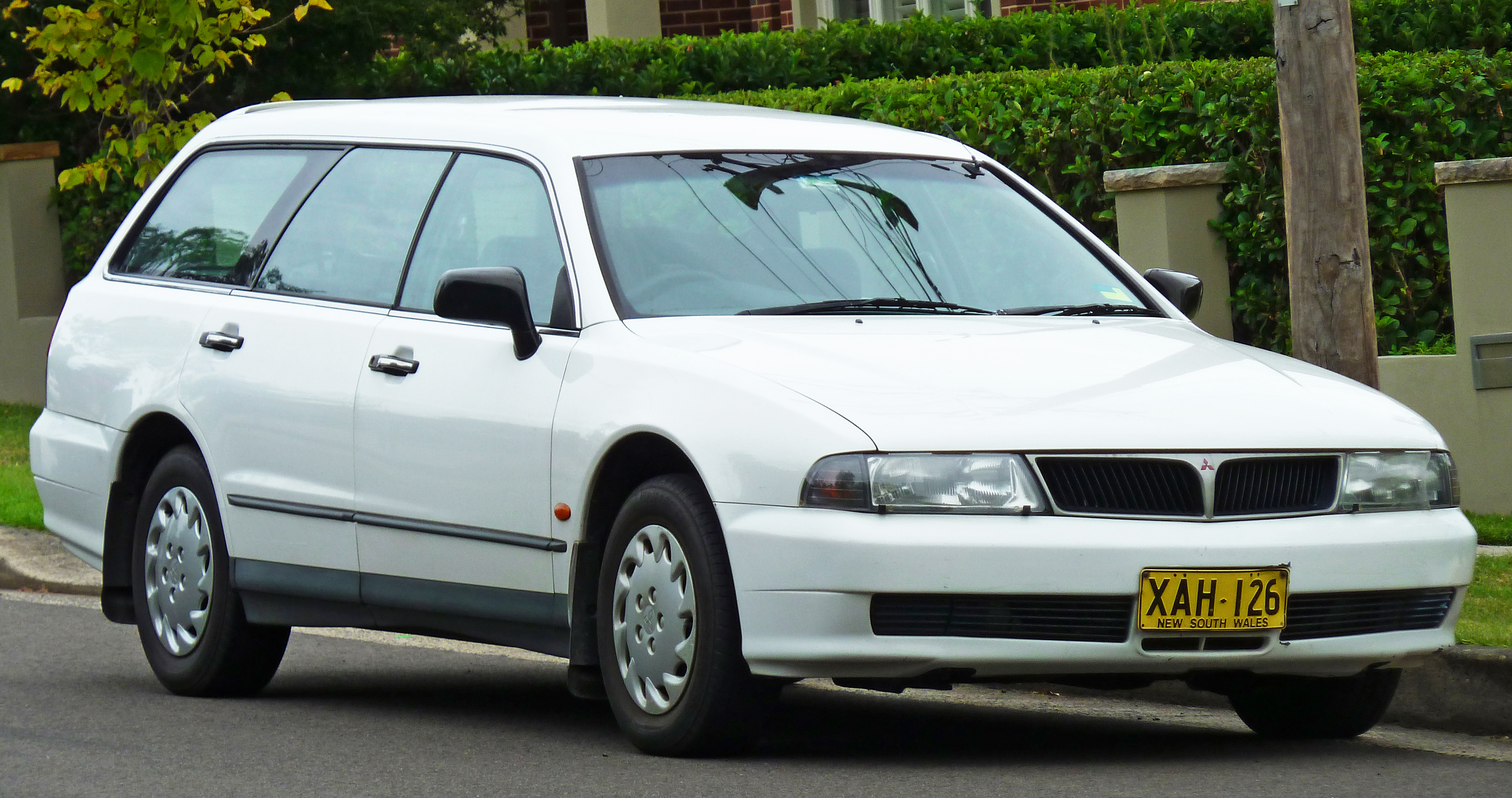 1997 Mitsubishi Magna (TF) Executive station wagon. Photographed in Roseville, New South Wales, Australia.